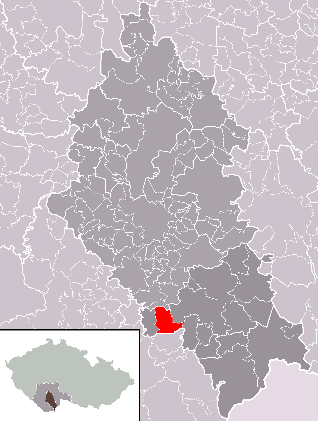 Location of Ločenice municipality within České Budějovice District and administrative area of Trhové Sviny as a Municipality with Extended Competence.